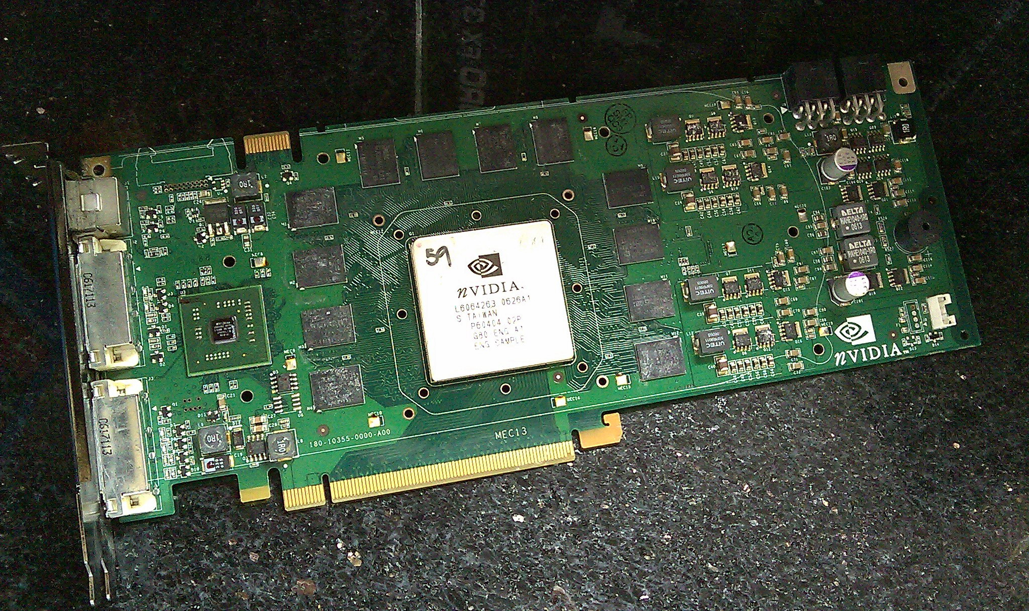 NVIDIA GeForce 8800 GTX Board